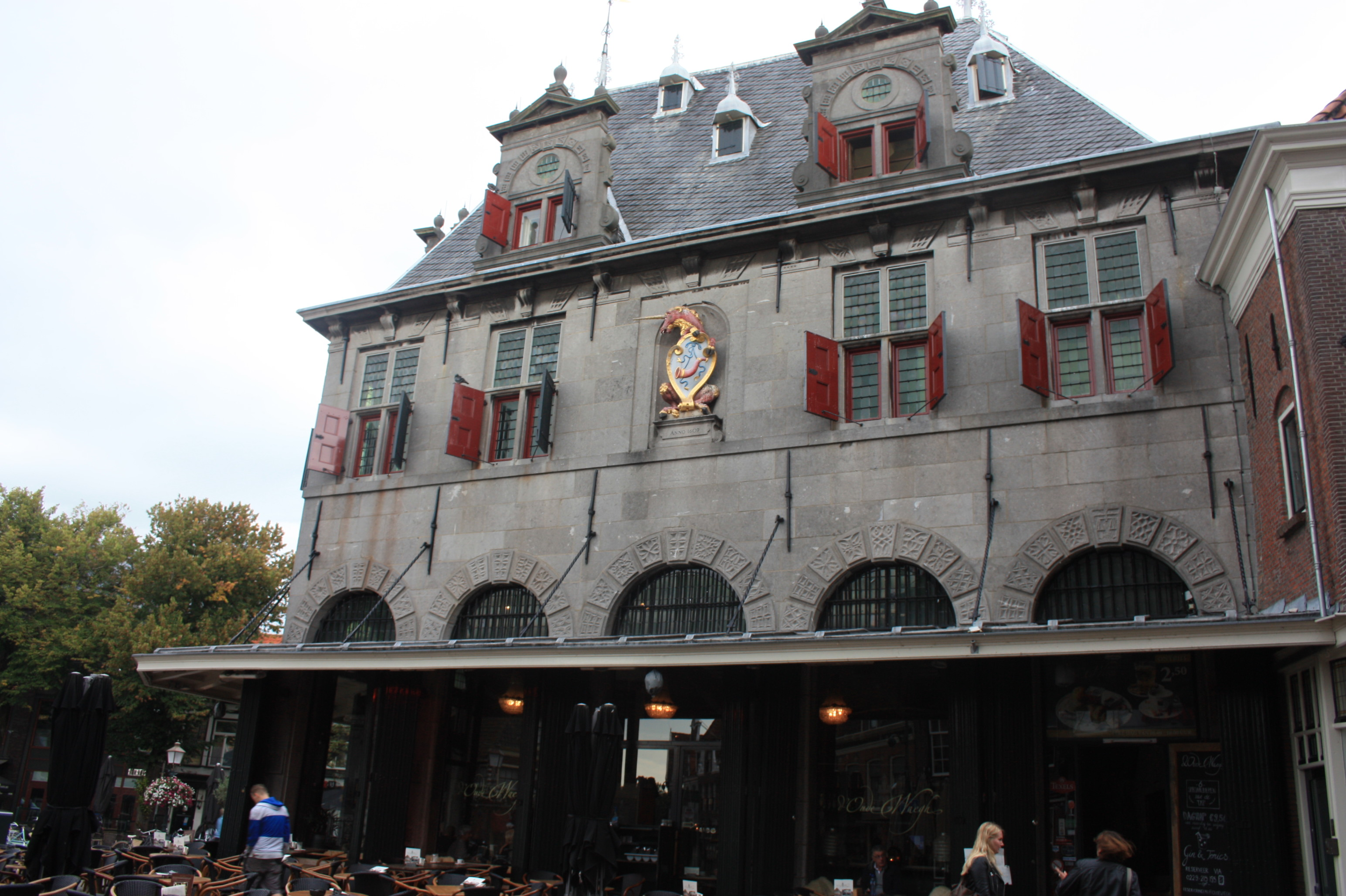 The Oude Waegh in Hoorn